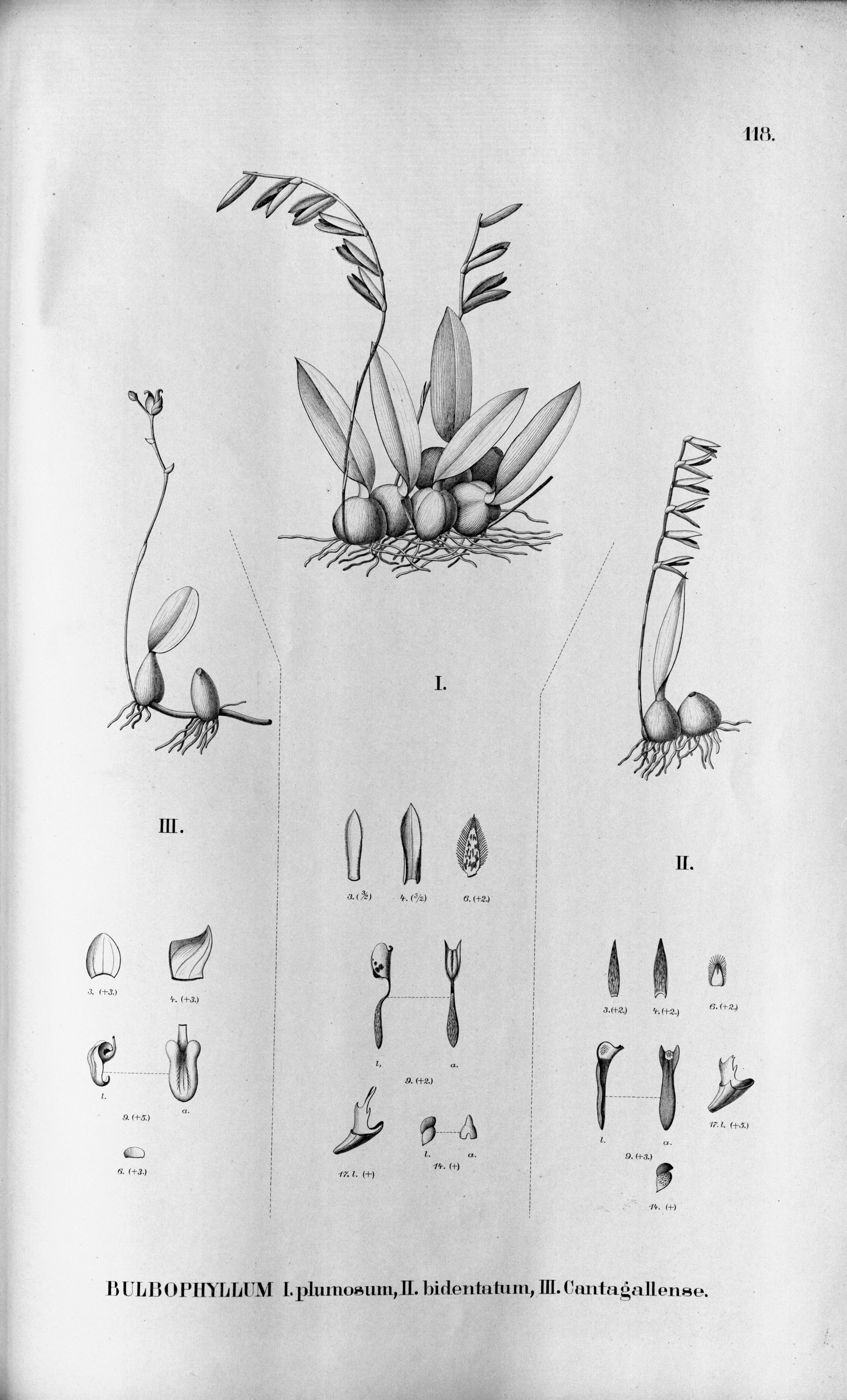 Illustration of: I. Bulbophyllum plumosum II. Bulbophyllum bidentatum III. Bulbophyllum cantagallense